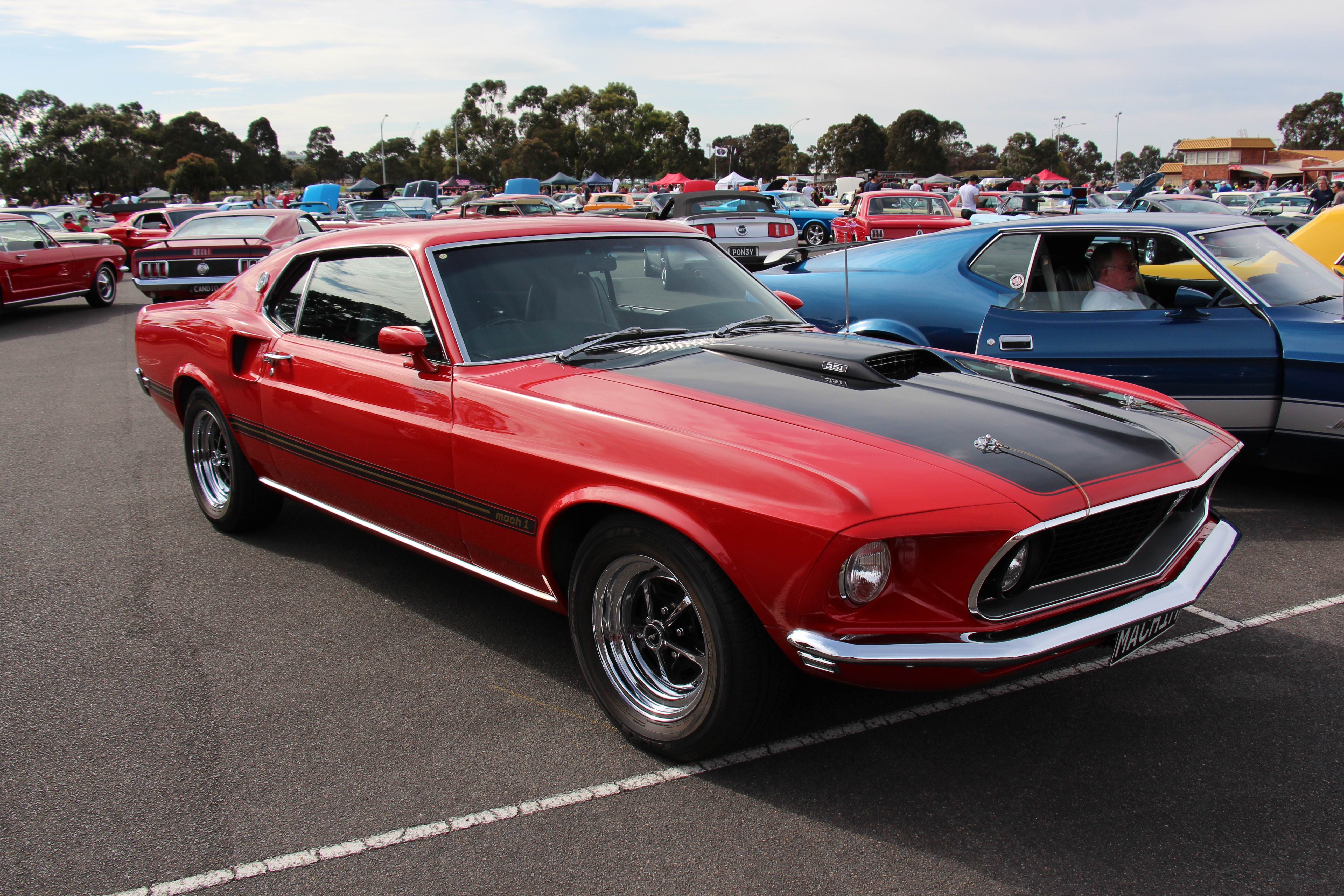 Candyapple Red. The 1969 Mustang got a new body, nearly 4 inches longer than the 1968 model. The Fastback was now called the Sportsroof and the sporty model was now the Mach 1, it got sports suspension, reflective striping, matt black hood, with functional scoop and lock pins. Other options were the 'Shaker' hood, front and rear spoilers and rear window louvre. Engines available in the Mach 1 were; 2 and 4 bbl 351 Windsor V8s, the 390 and 428 Cobra Jet and Super Cobra Jet. Other Sportsroofs available were the Boss 302 (for Trans Am homologation) and Boss 429 (for NASCAR homologation) Hardtops and Convertibles also available in base models Engines; 200 and 250 6s or 302, 351 and 390 V8s also 428 Cobra Jet (with or without Ram air), Boss 302 and 429